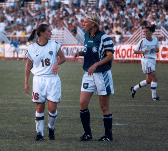 Tiffeny Milbrett and Doris Fitschen playing in a friendly in St. Louis, Missouri, on June 25, 1998.